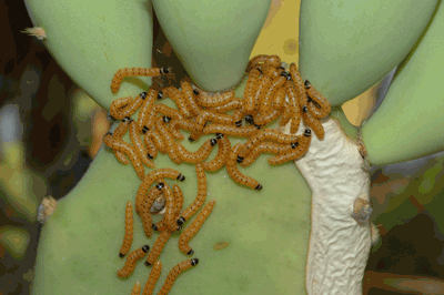 Cactoblastis cactorum Larvae on Opuntia ficus-indica